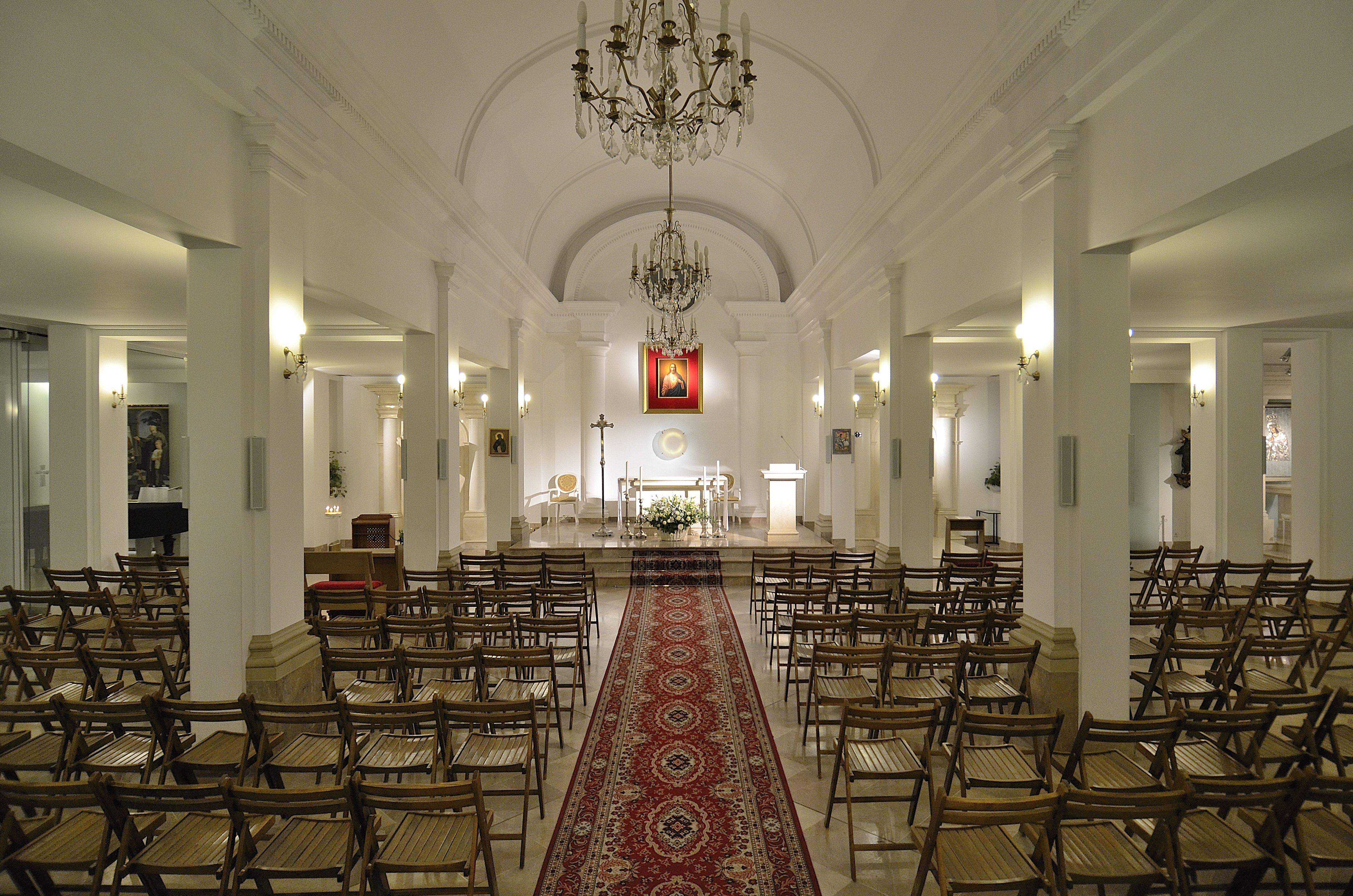 Interior of St. Andreas and St. Albert Church in Warsaw